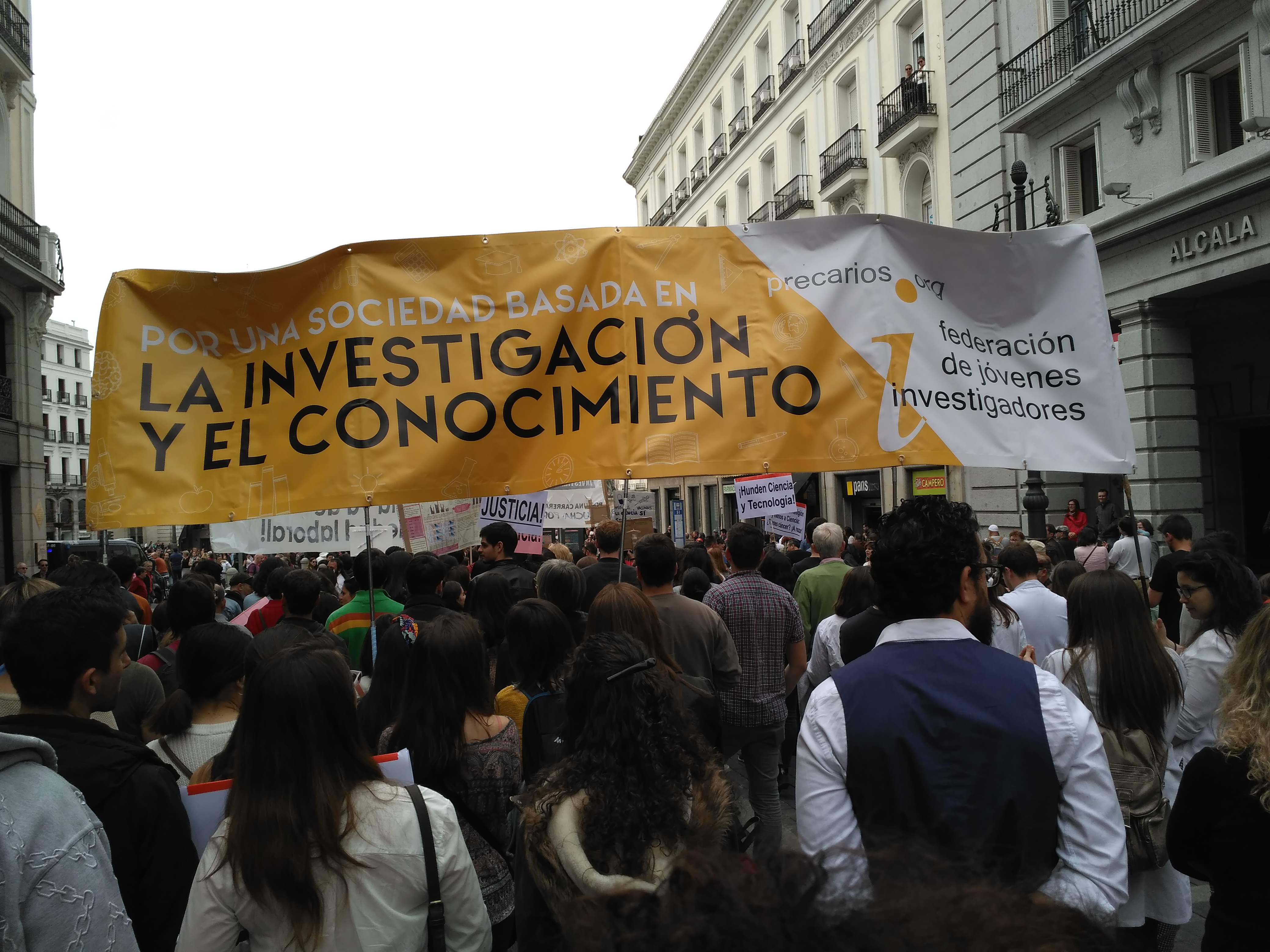 Picture taken during the March for Science (April, 2017, Madrid, Spain)